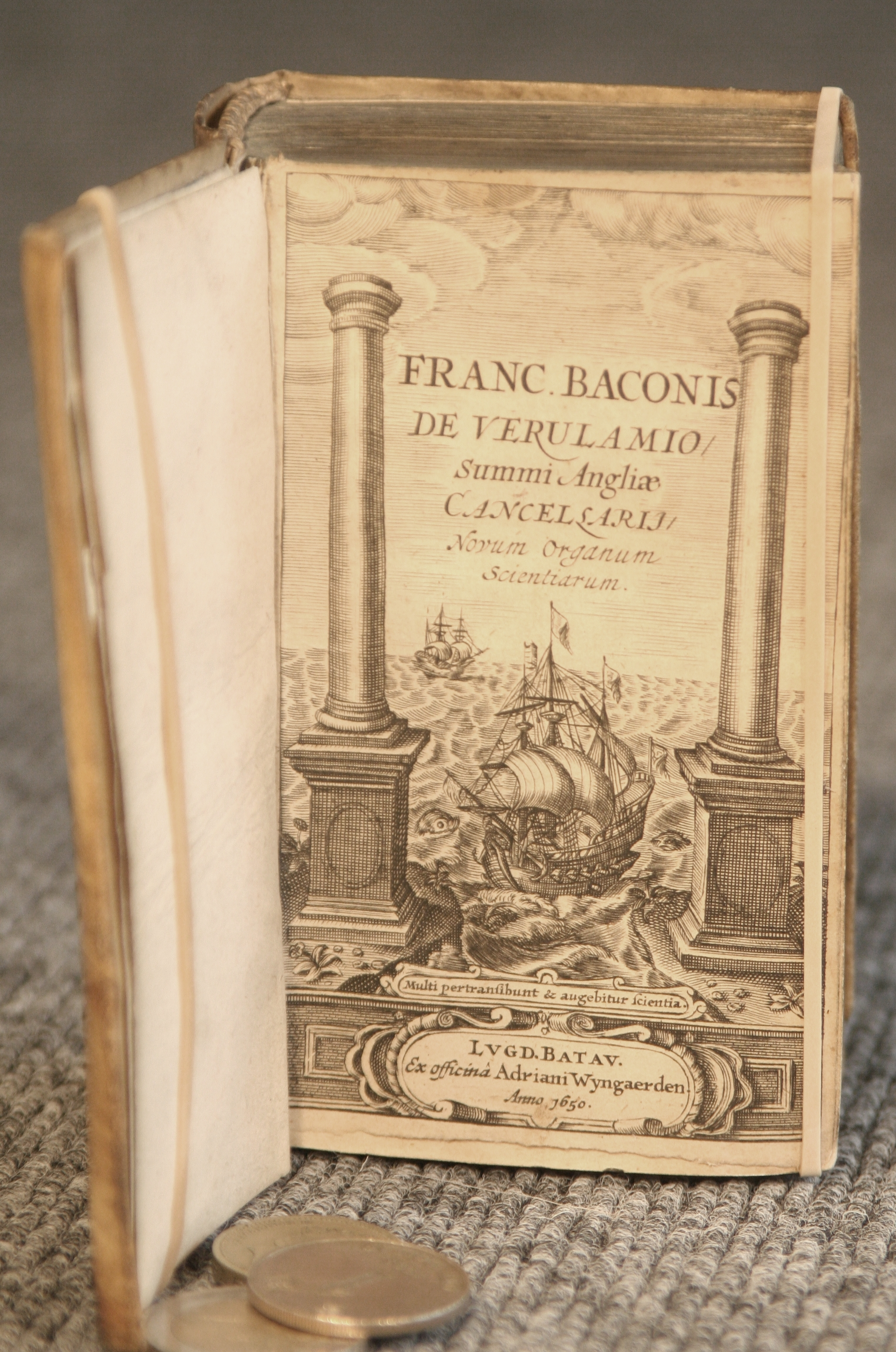 Photograph of book Novum Organum, 1650